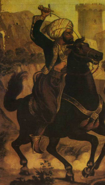 Cropped from File:Marko_Kraljević_i_Musa_Kesedžija.jpg. Prince Marko and Musa the Outlaw, 1900 painting by Vladislav Titelbah, the Narodni muzej Museum in Kikinda, Serbia. This just shows Musa, and is for a DYK on en: wikipedia.